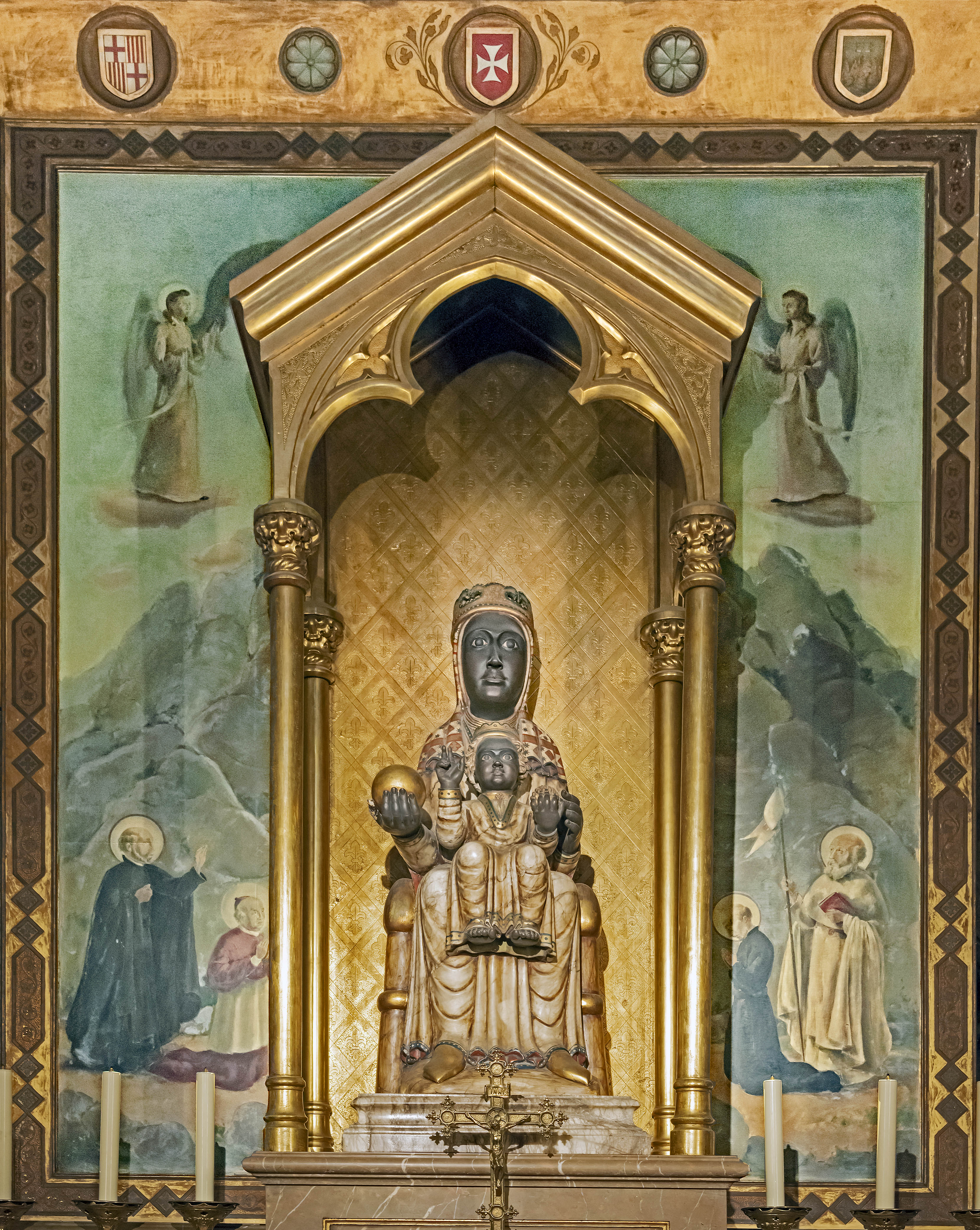 The Cathedral of the Holy Cross and Saint Eulalia in Barcelona. Chapels of the Virgin of Montserrat. Altarpiece has an alabaster stature of 1945, replica of the Moreneta, installed before a pictorial work of the year 1940.